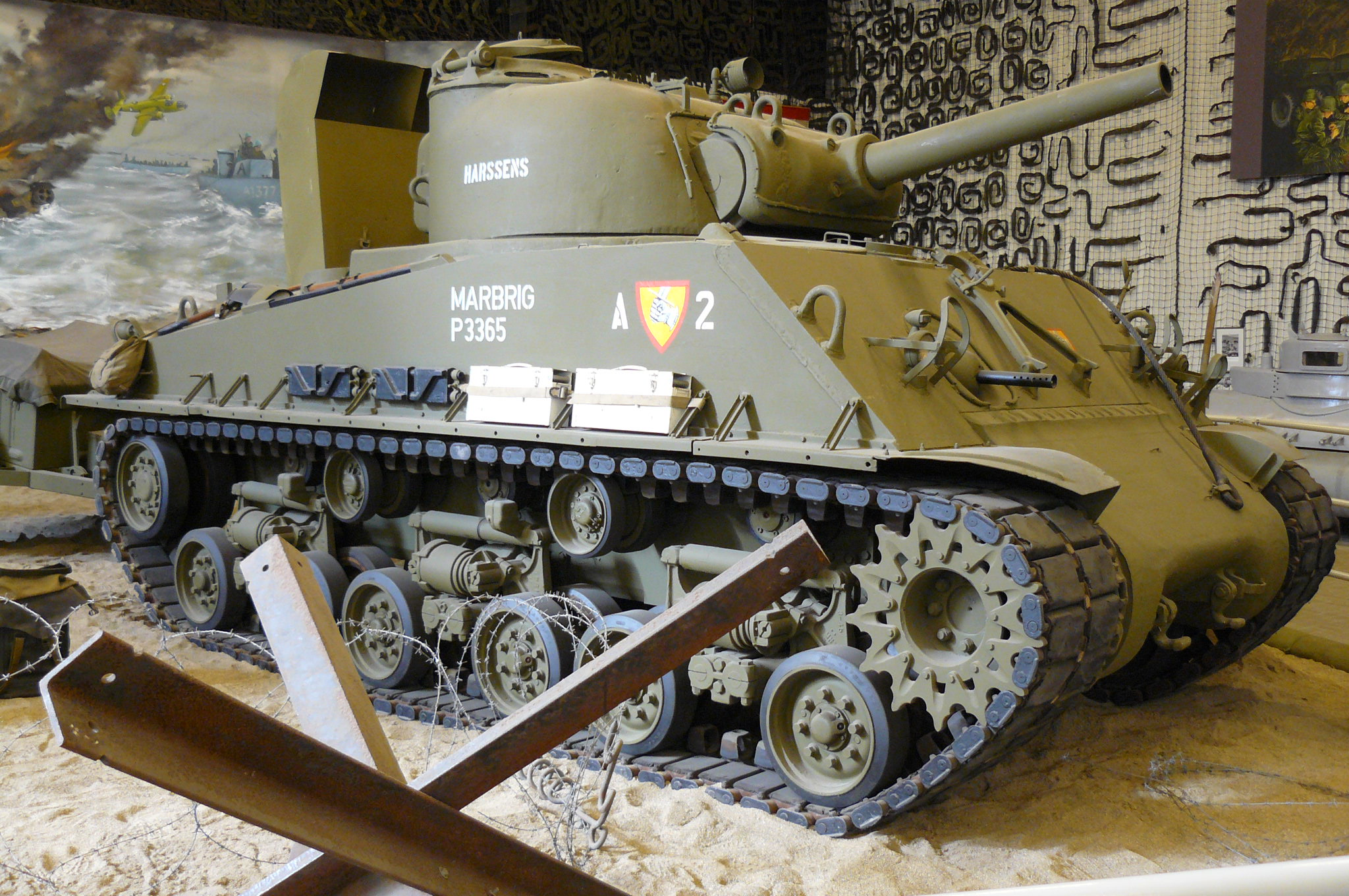 M4A3 Sherman tank with 105mm-howitser as seen in the Liberty Park, Overloon, the Netherlands. Front left photo taken on 20 May 2012.